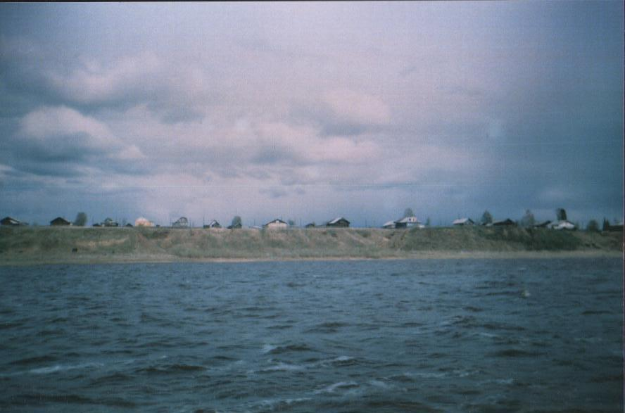 Konetsgorye